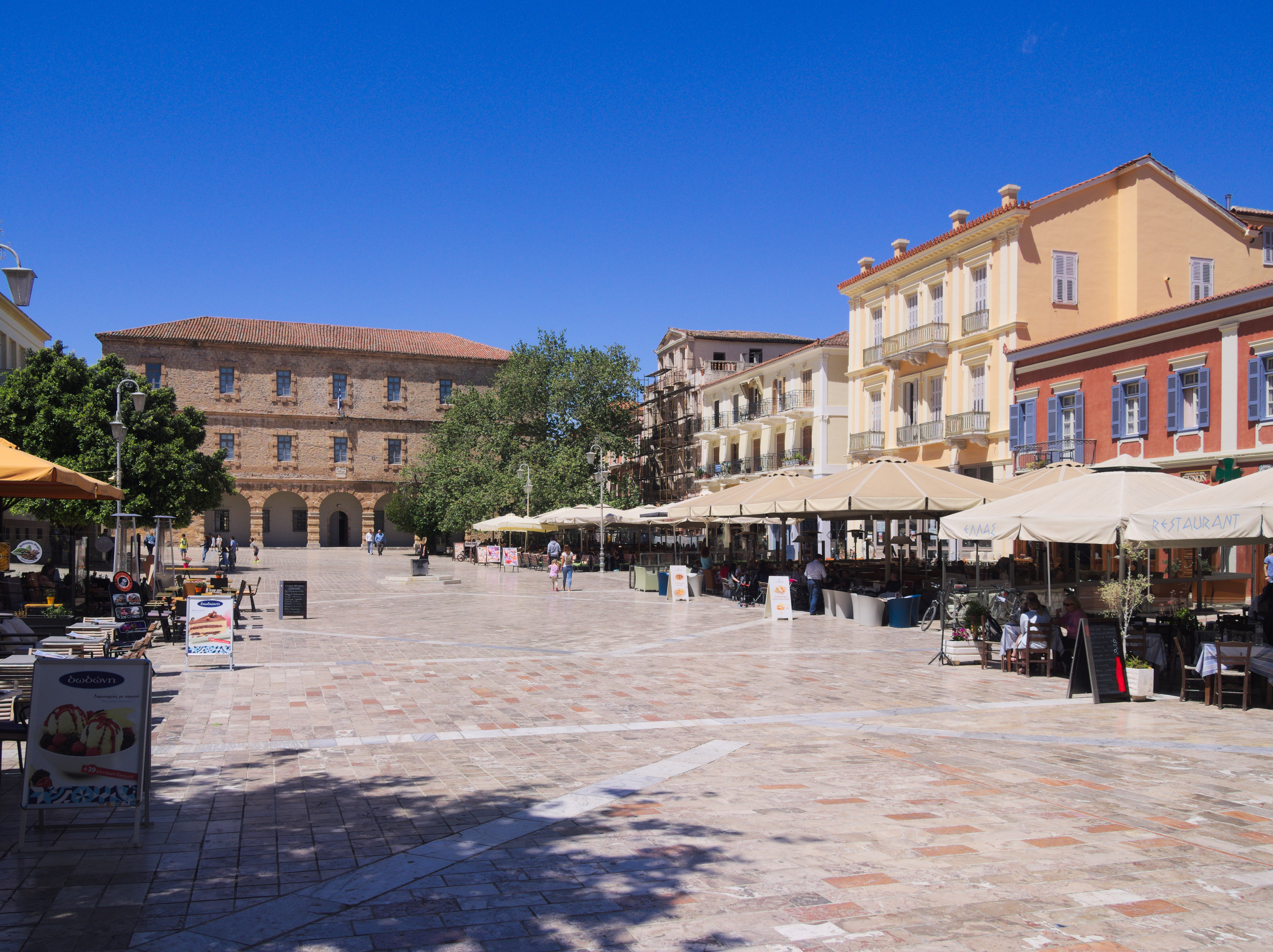 View of Syntagma square, Nafplion.